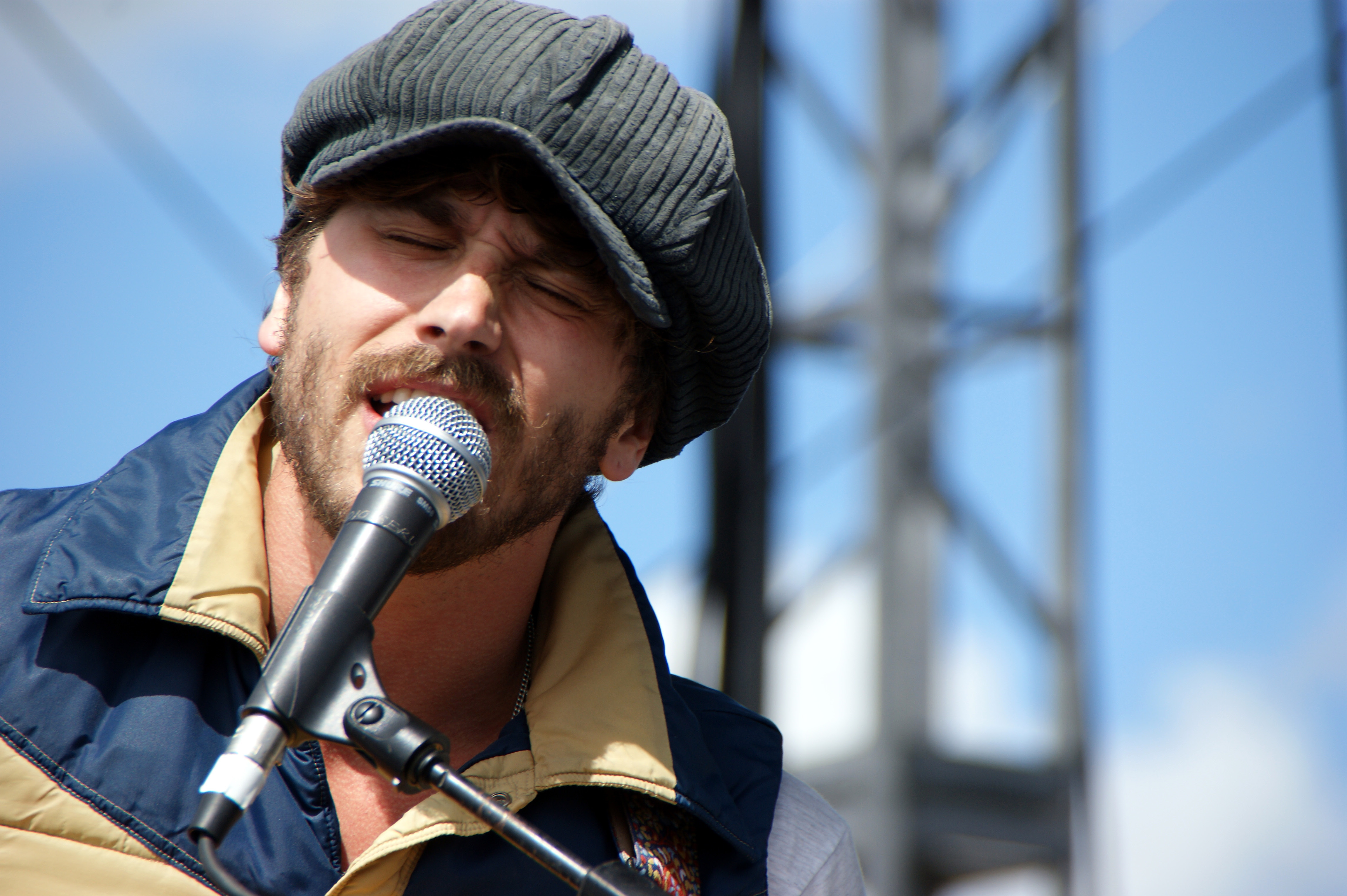 John Baldwin Gourley of band "Portugal. The Man" at the Sasquatch! Festival in Quincy, Washington, US on 29 May 2010.